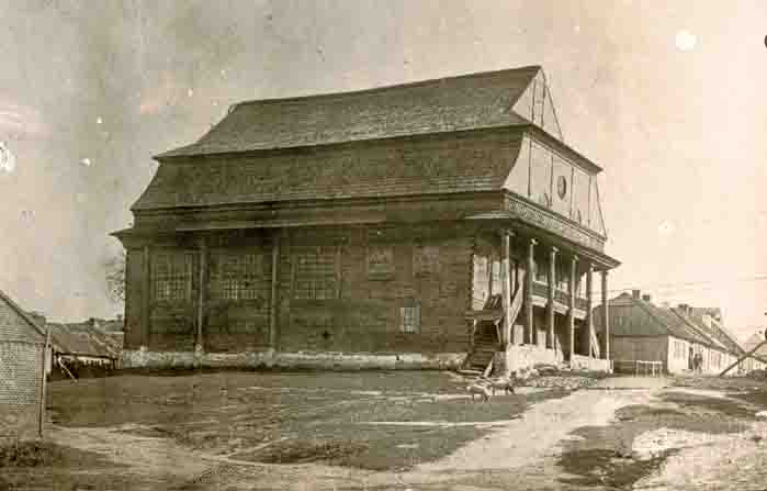 Synagogue in Lutomiersk